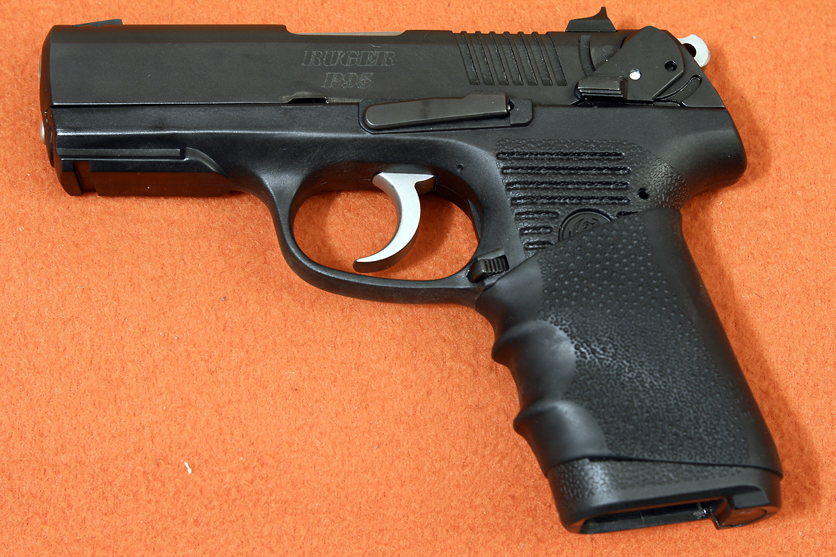 Ruger P95PR 9mm pistol (left side) - blued, manual safety version, 2008 production (Prescott AZ USA), shown with aftermarket Hogue Handall grip